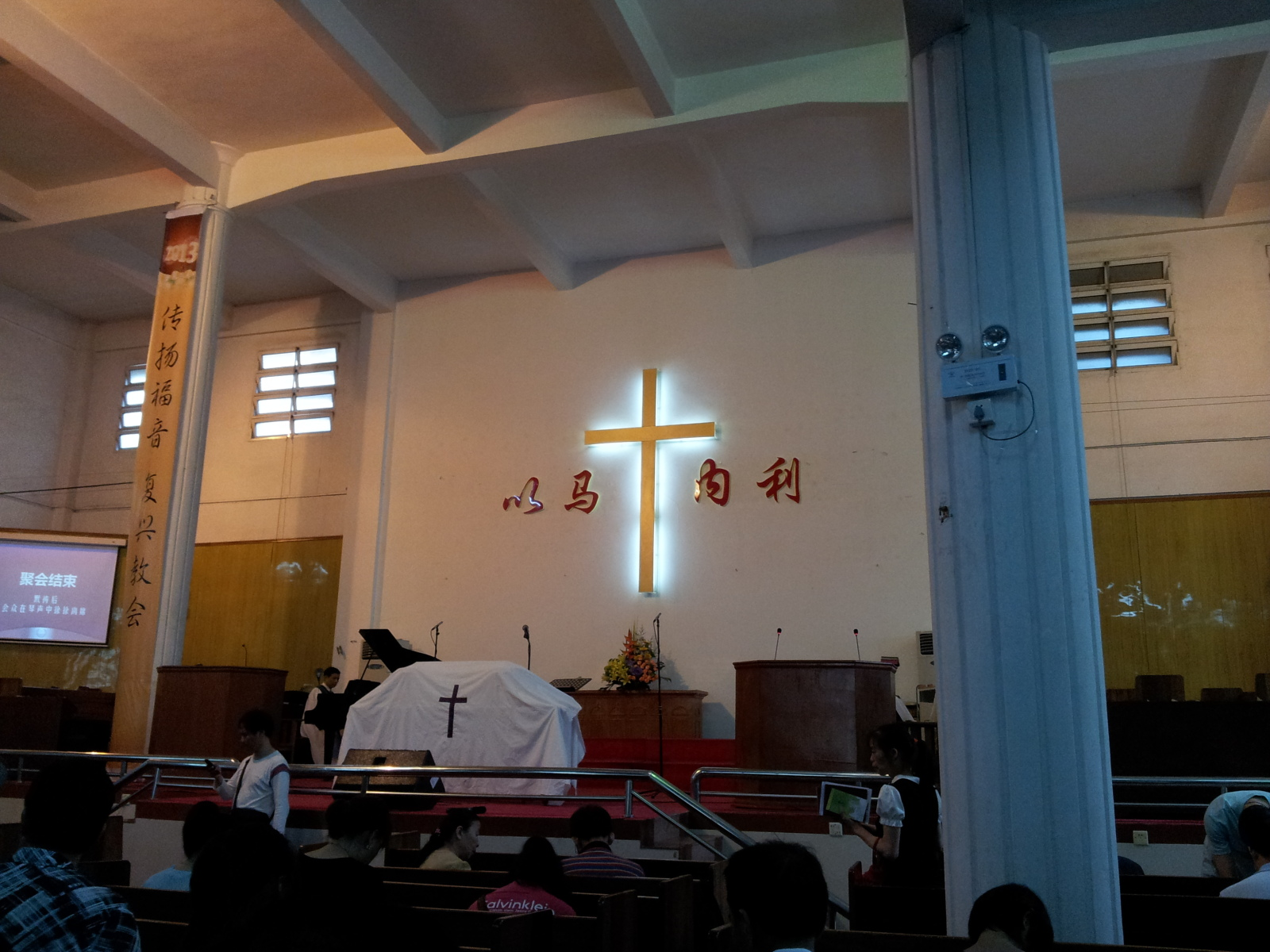 A simple Sunday Worship and Holy Communion of SebPouTong Canton China Mainland(before repairing).